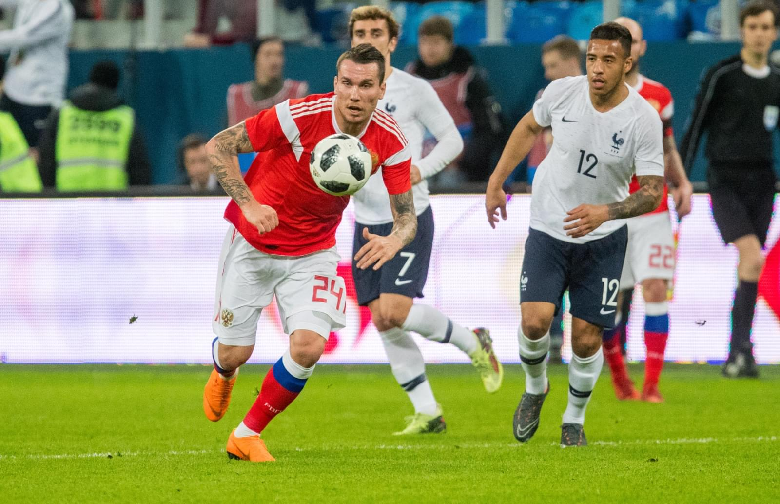 27.03.2018. Россия, Санкт-Петербург, «Санкт-Петербург». Товарищеский матч «Россия» — «Франция».